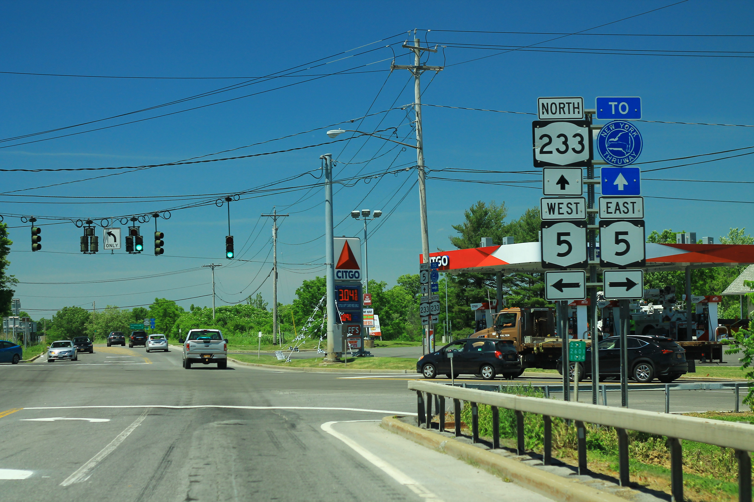 NY233 North - NY5 + Thruway Signs